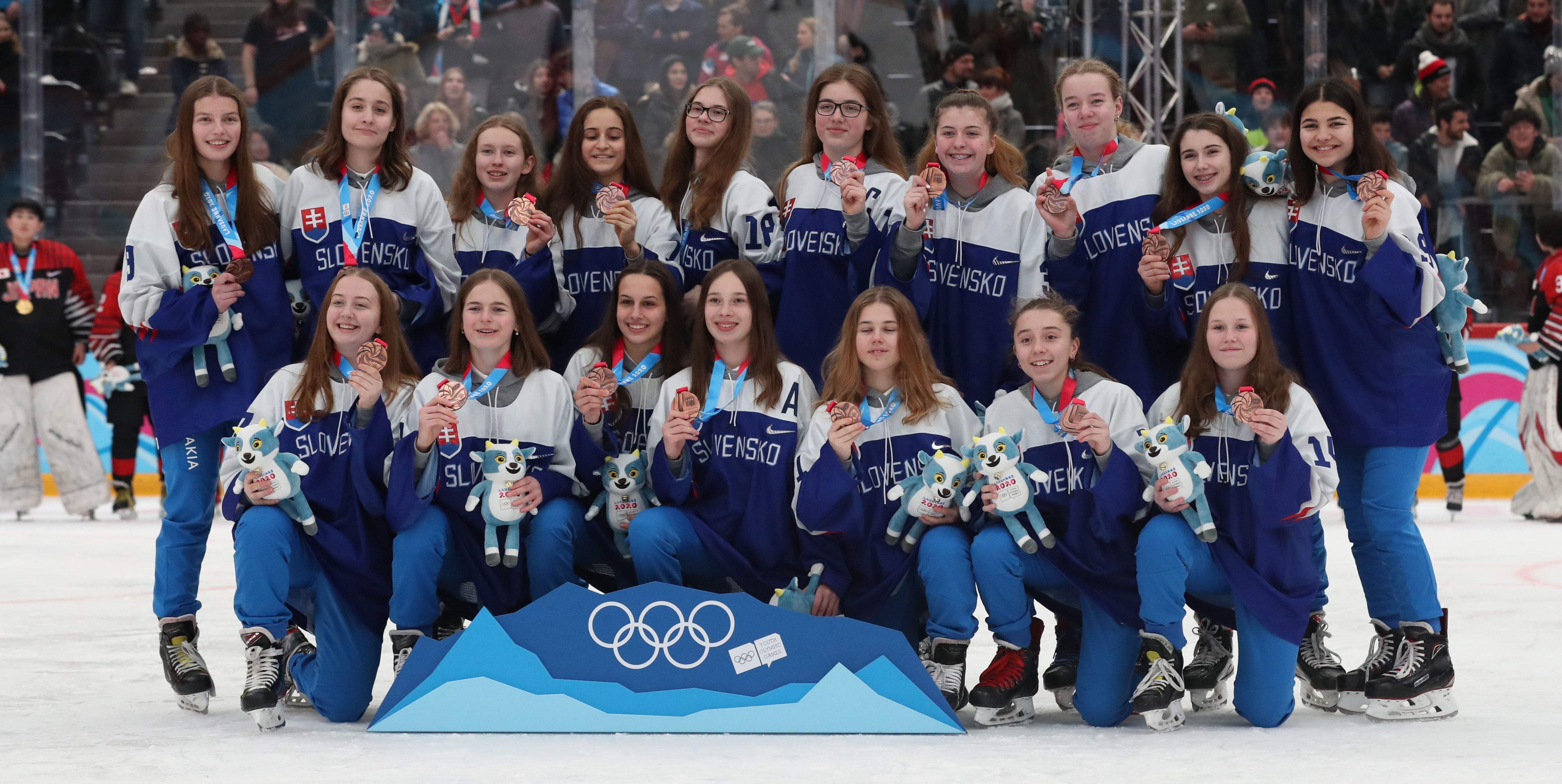 Victory Ceremony (Mascot and Medal Ceremony) at the Women's Ice Hockey Tournament at the 2020 Winter Youth Olympics in Lausanne: Japan (Gold medal), Sweden (Silver medal) and Slovakia (Bronze medal)